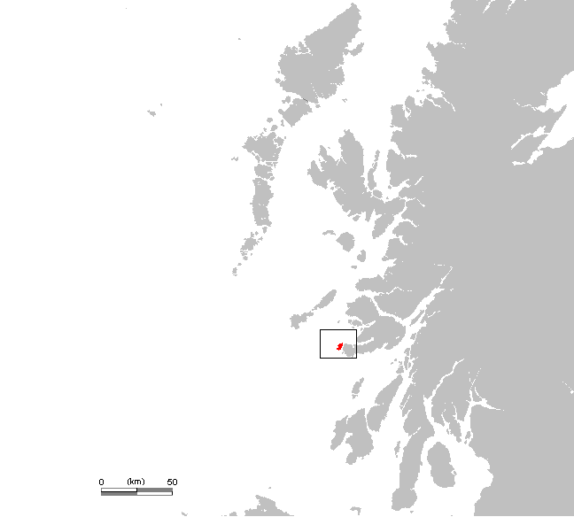 UK Iona.PNG (Scotland, Hebrides)